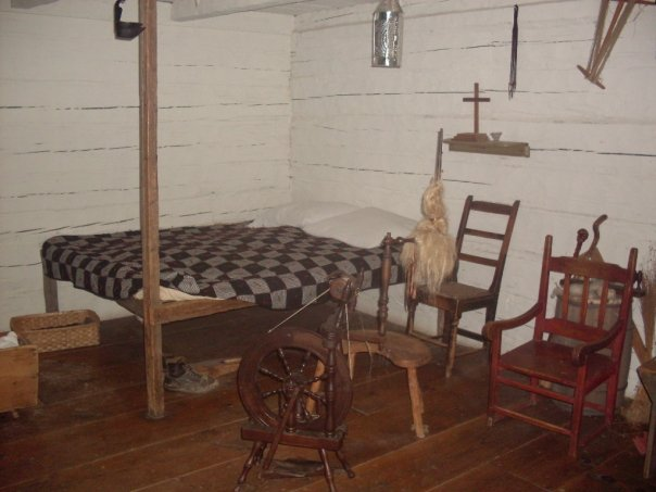 I am the originator of this photo. I hold the copyright. I release it to the public domain. This photo depicts the interior of Killeen Cabin at Kings Landing Historical Settlement.